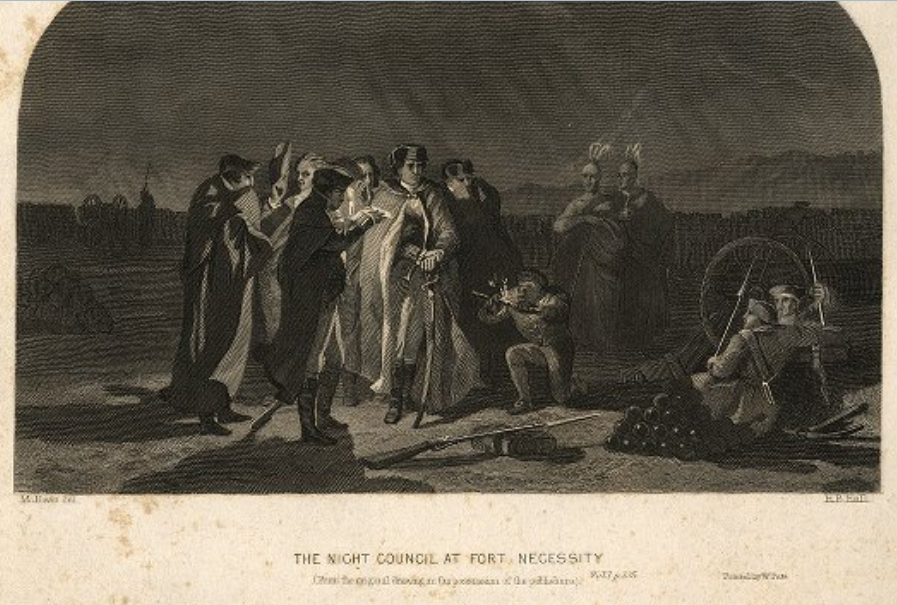 An engraving by artist John McNevin, Artist and engraver Henry Bryan Hall (1808-1884) depicting the evening council of George Washington at Fort Necessity issued in 1856.